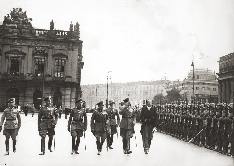 An official visit of minister for Foreign Affairs of Poland, Józef Beck in Berlin. Left to Beck Fieldmarshall an Minister of Reichswehr Werner von Blomberg